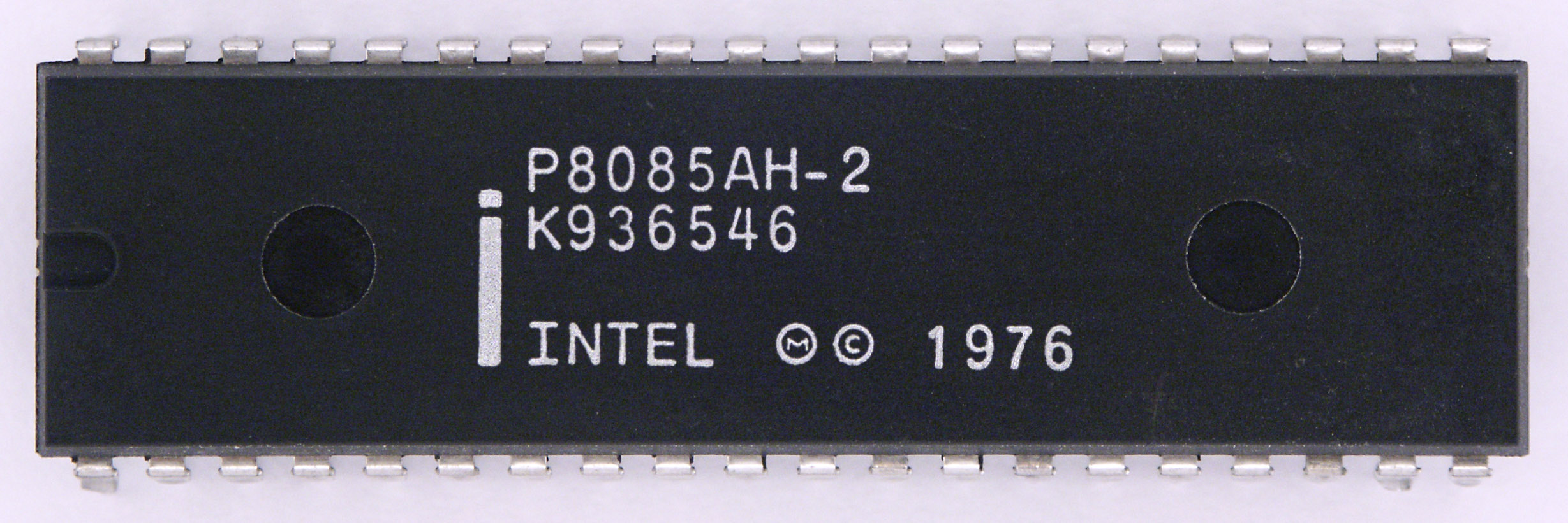 Microprocessor Intel 8085 (P8085AH-2), 5 MHz, in 40-pin DIP (plastic) Photographed by User:Stefan506, on December 9, 2005